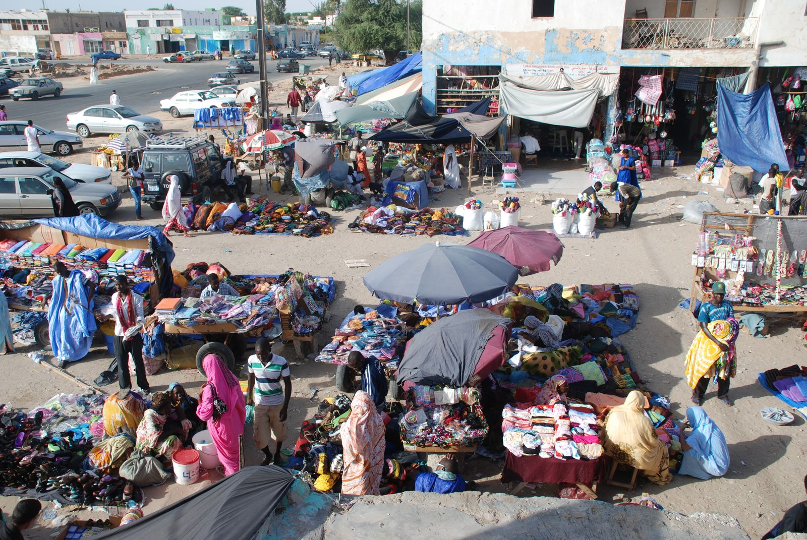 Nouakchott, Mauritania, Marché Capitale